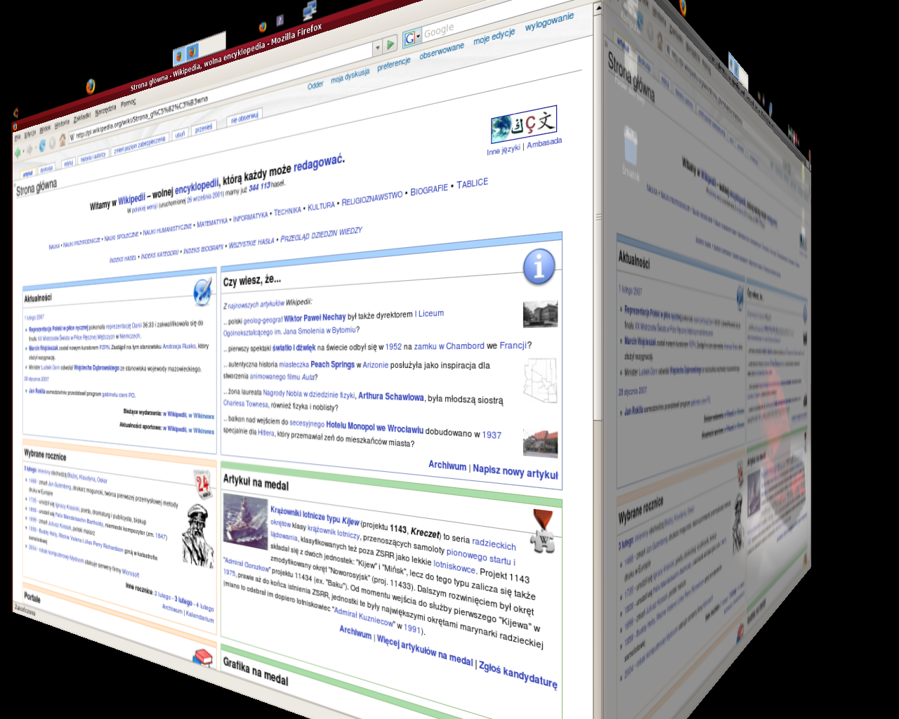 Screenshot of Ubuntu Edgy Eft GNU/Linux running Beryl and twice opened Firefox on the main page of Polish Wikipedia.